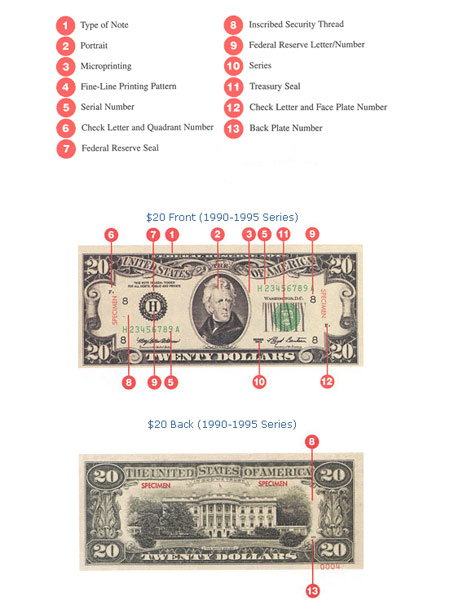 Know Your Money - a summary of anti-counterfeiting features on the American twenty dollar bill